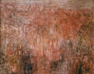 Pierre Dmitrienko, "Pas même un serpent", 1959, oil on canvas, 150x190cm